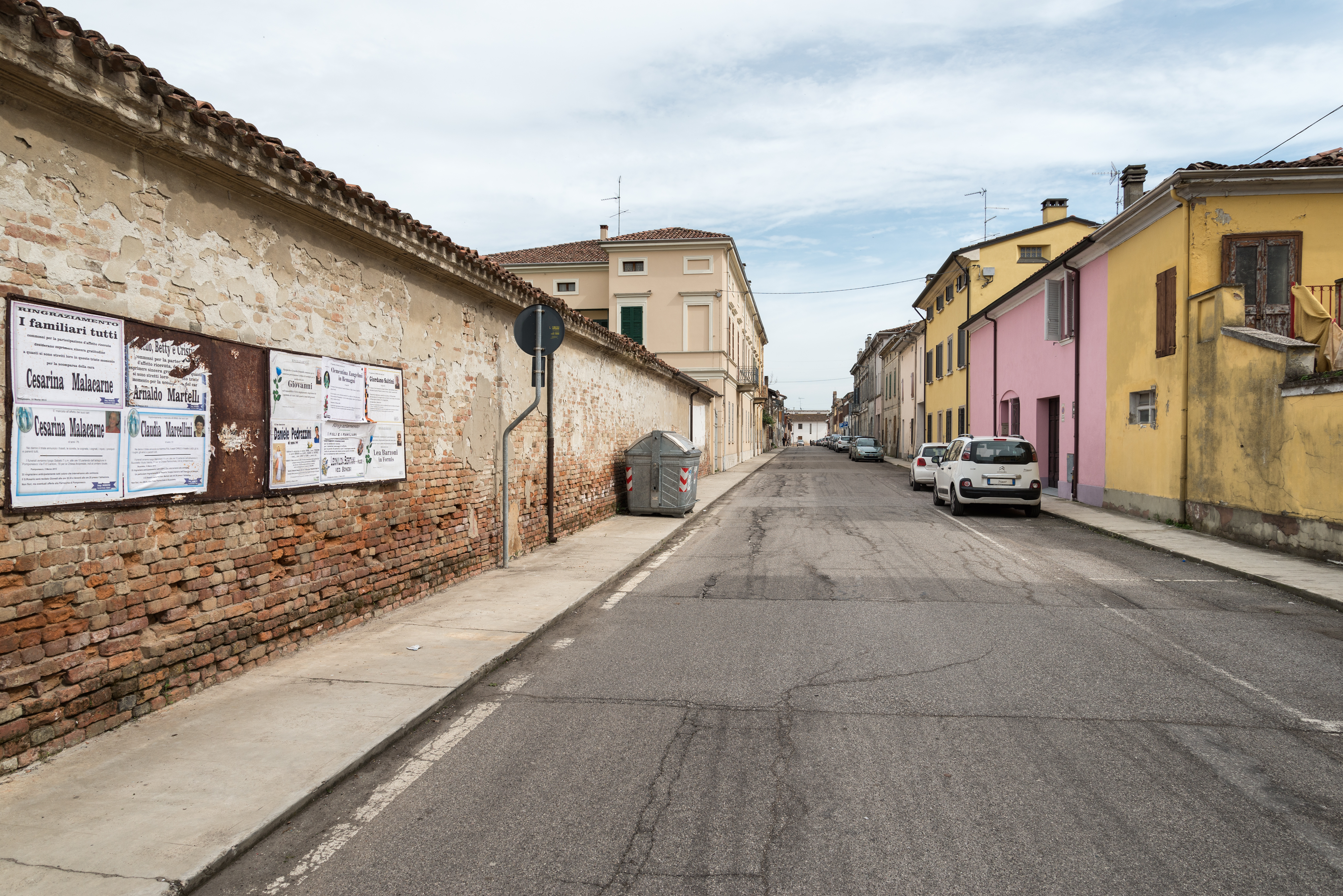 Via Giuseppe Garibaldi - Pomponesco, Mantua, Italy